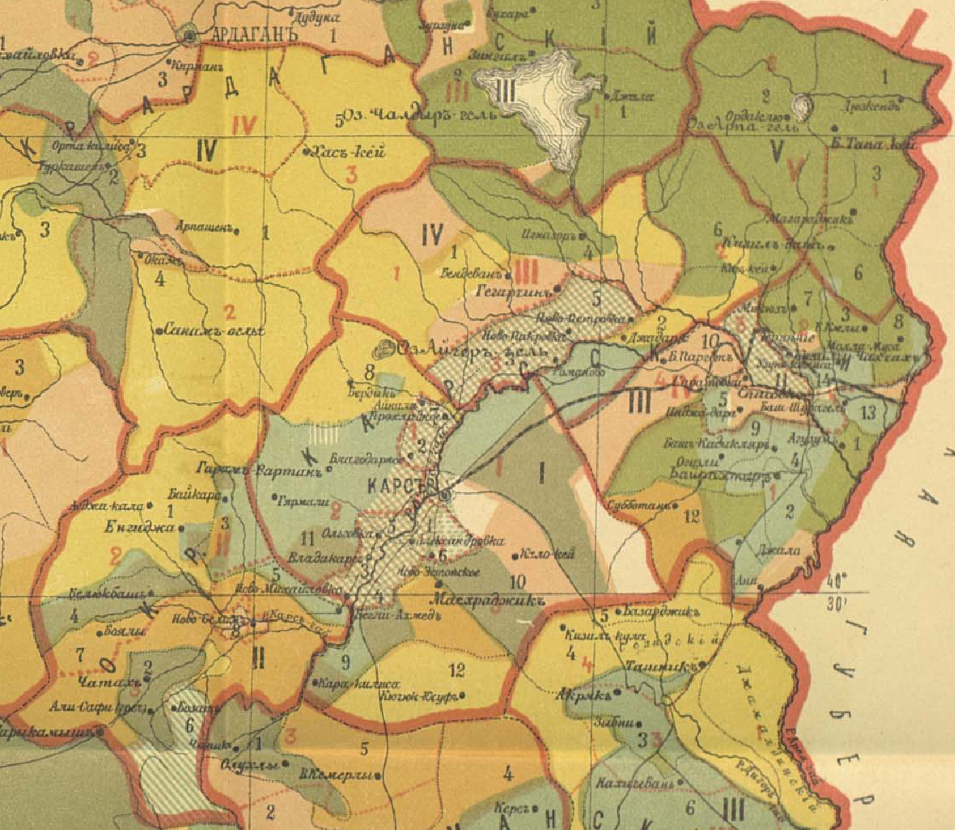 Ethnographic map of the Kars OkrugAzərbaycanca: Qars dairəsinin etnoqrafik xəritəsi